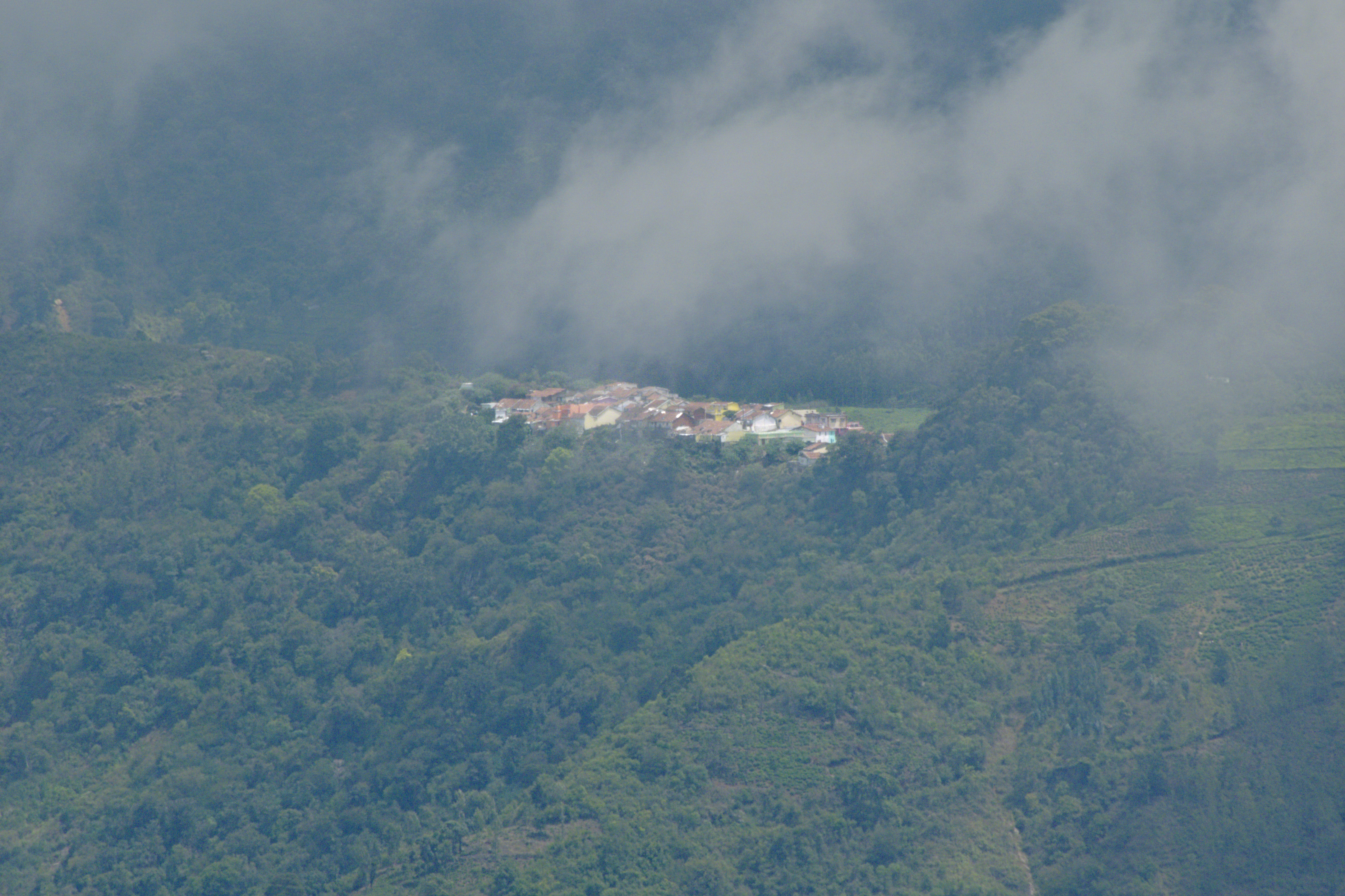 Kinnakorai hamlet in the Nilgiris District, India